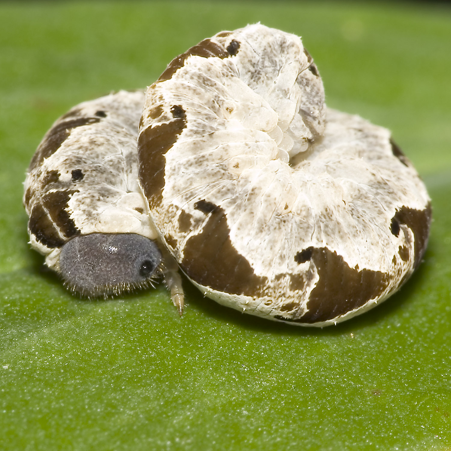 Tenthredo vespa, larva, Thanks to user:DocTaxon for determination!